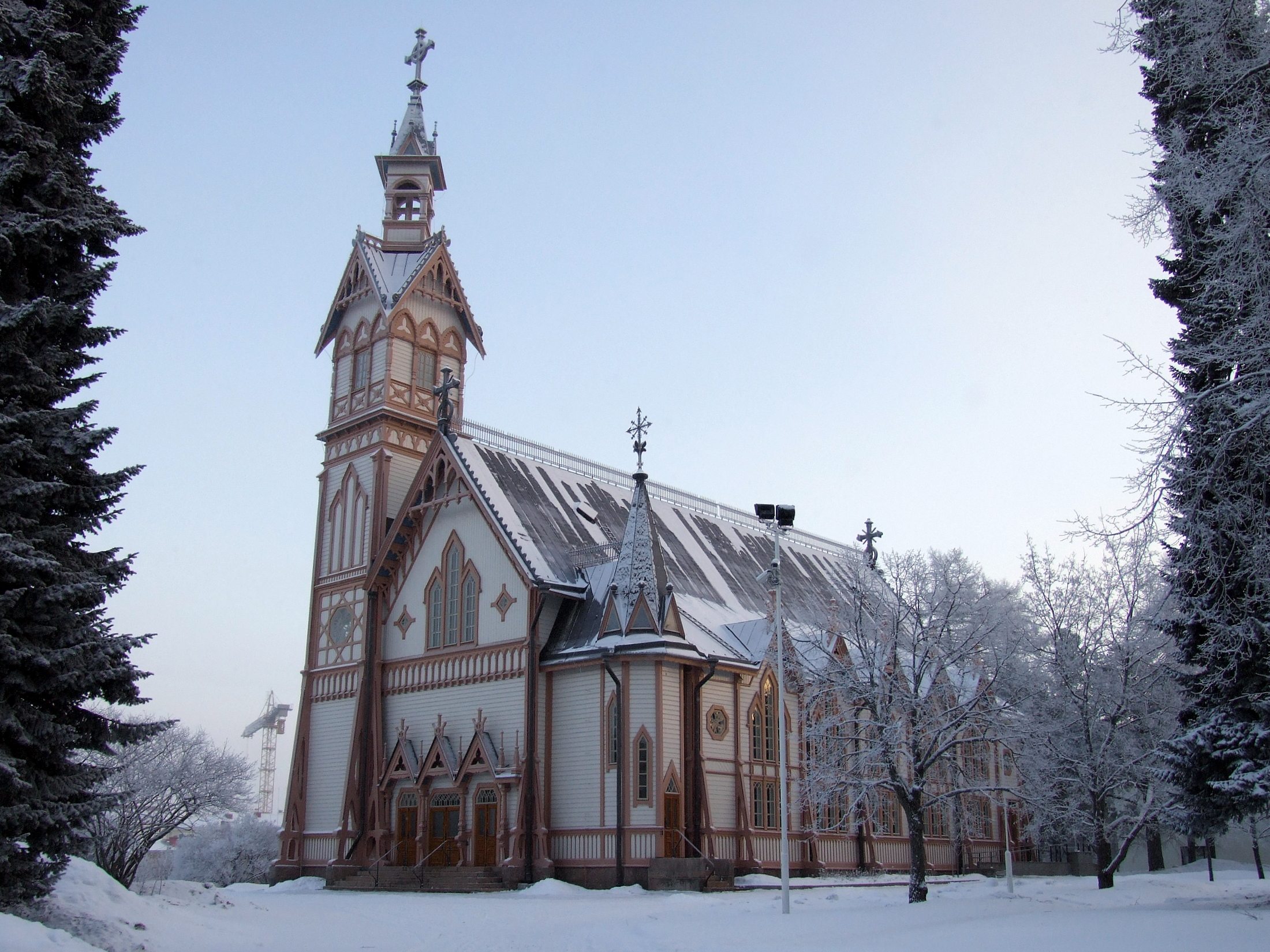 Kajaani church in Kajaani, Finland. The wooden church was designed by architect Jac. Ahrenberg and built in 1897.